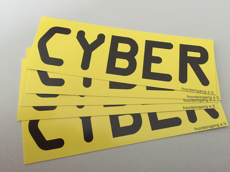 Cyber Stickers